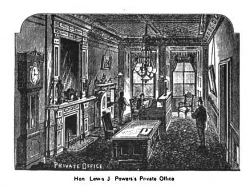 King, Moses (1884), King's handbook of Springfield, Massachusetts: a series of, Springfield, Ma: James D. Gill, p. 324.